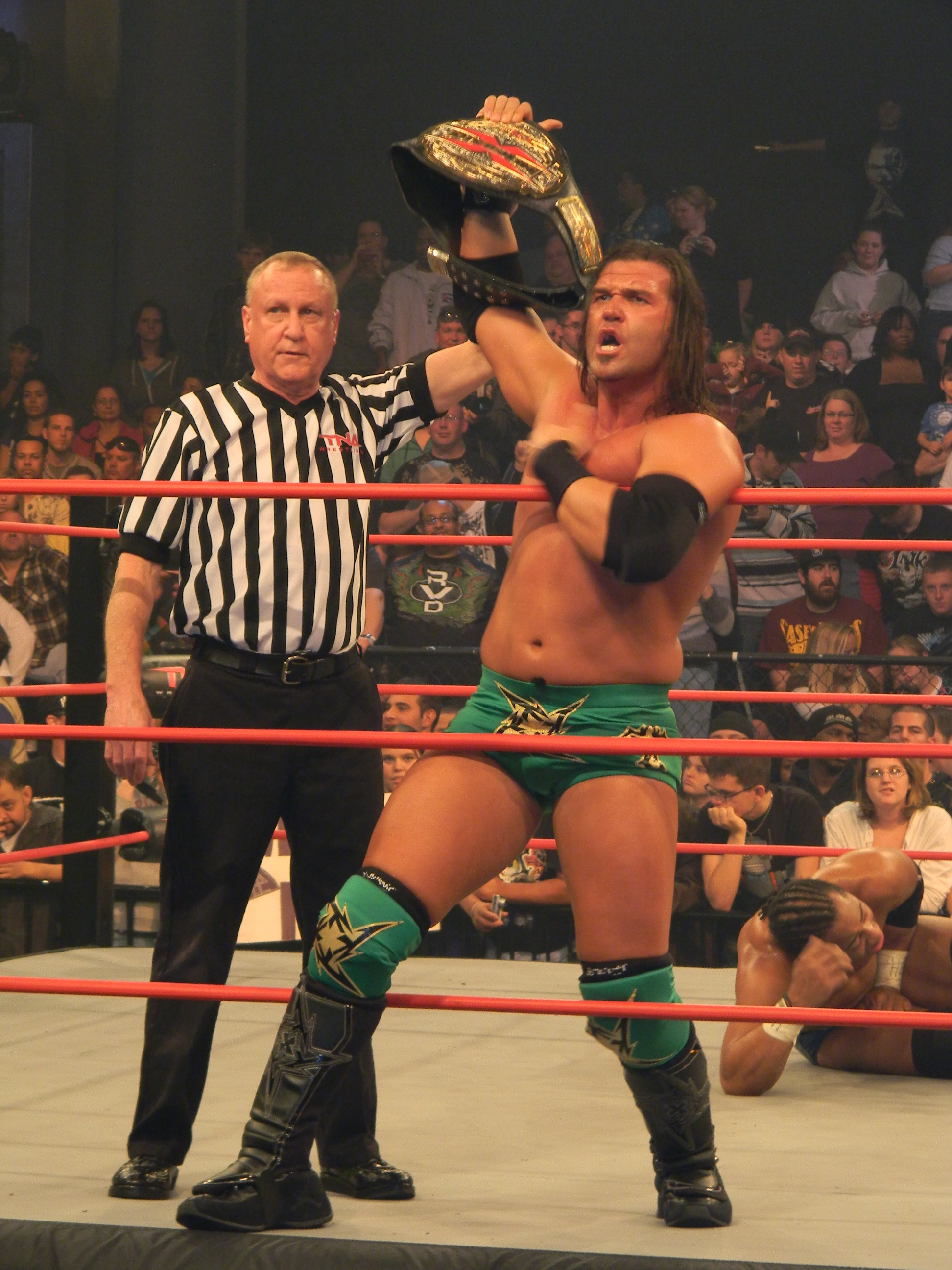 Kazarian celebrates his win over Jay Lethal at Genesis, taking the X Division title.